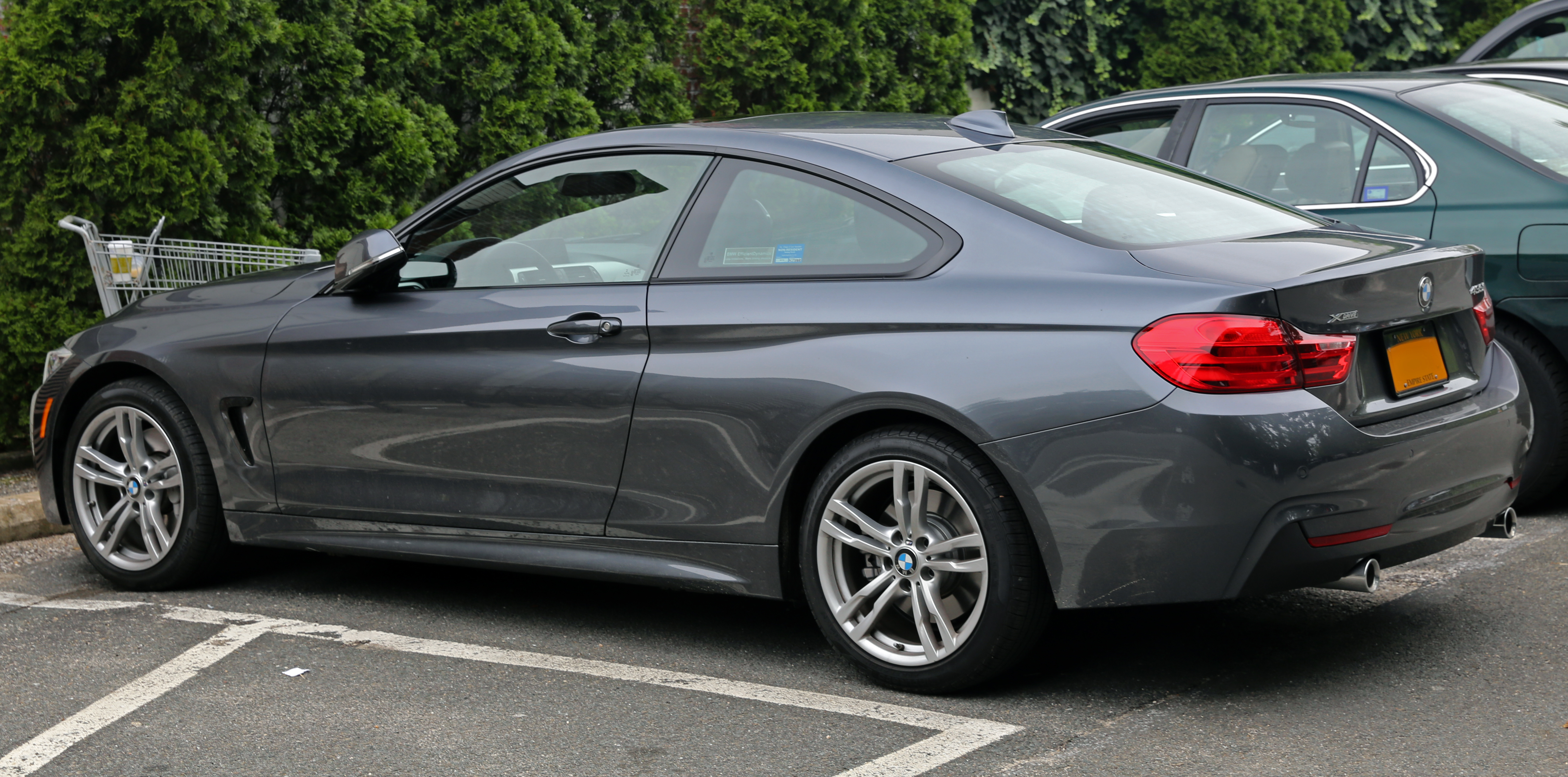 A 2014 BMW 435i Coupé xDrive.